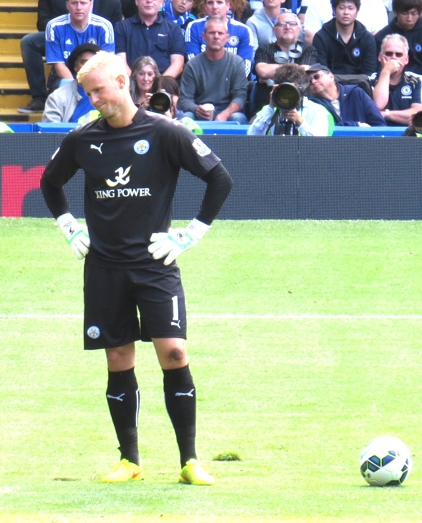 Kasper Schmeichel away to Chelsea,August 2014